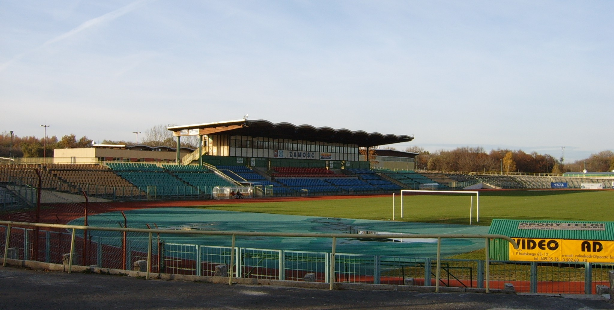 Stadium in Sport and Recreation Center in Zamość, Poland